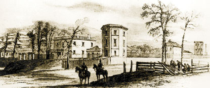 drawing of the Fayetteville Arsenal before it was destroyed by Sherman's Army